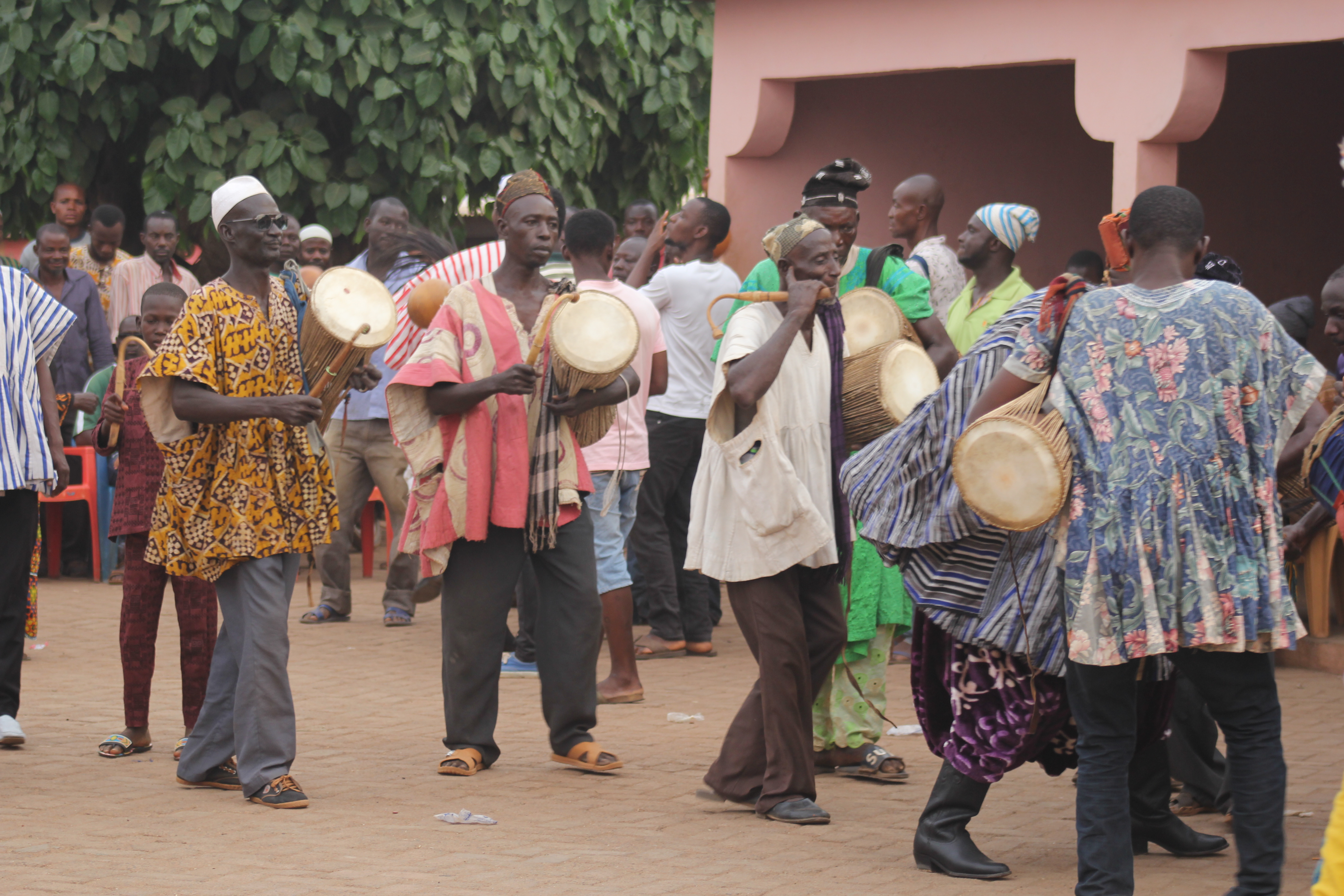 Some men dancing, drumming and singing at the 2016 Damba Festival in Ghana